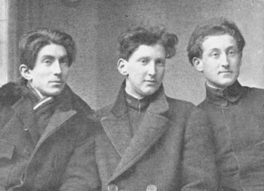 From left: poet Benjamin Fondane, draftsman Iosif Ross, and journalist F. Brunea[-Fox] as teenagers. Photographed here in their National College Iaşi uniforms.